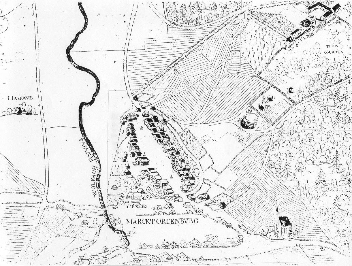 Ortenburg in the year 1625